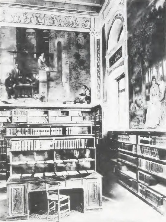 The Naples Zoological Station Library in the frescoe room. The cycle of frescos depicting scenes from Neapolitan life, were created in 1873 by the German painter Hans von Marees and the German sculptor Adolf von Hildebrand. 1895. (Dohrn Archives) "The fresco room at Stazione Zoologica Naples On the walls are notable frescoes by Hans v. Marees, one of the group of four especial friends of Dohrn when, in 1871, he was Privatdozent at the University of Jena. In the fresco on the east wall, Dohrn and these four friends, the biologist Kleinenberg, Charles Grant, the author of " Tales of Naples and the Camorra," the artist himself and the sculptor Hildebrand, are represented as grouped about a table at the ruins of the Palazzo di Donn' Anna on the Posilipo. In two other scenes, first Neapolitan fishermen are carrying the net from the shore and launching their boat and then four stalwart fishermen are rowing, standing in their characteristic manner and bending forward with each push upon the oar. On the south wall three ages of man are represented in an orange grove; the child lying on the sand and playing, the man in his prime gathering the ripe fruit and the old man bending over his spade. The ornamental panels between the frescoes and the frieze, as well as impressive busts of Darwin and Von Baer, are by Hildebrand."